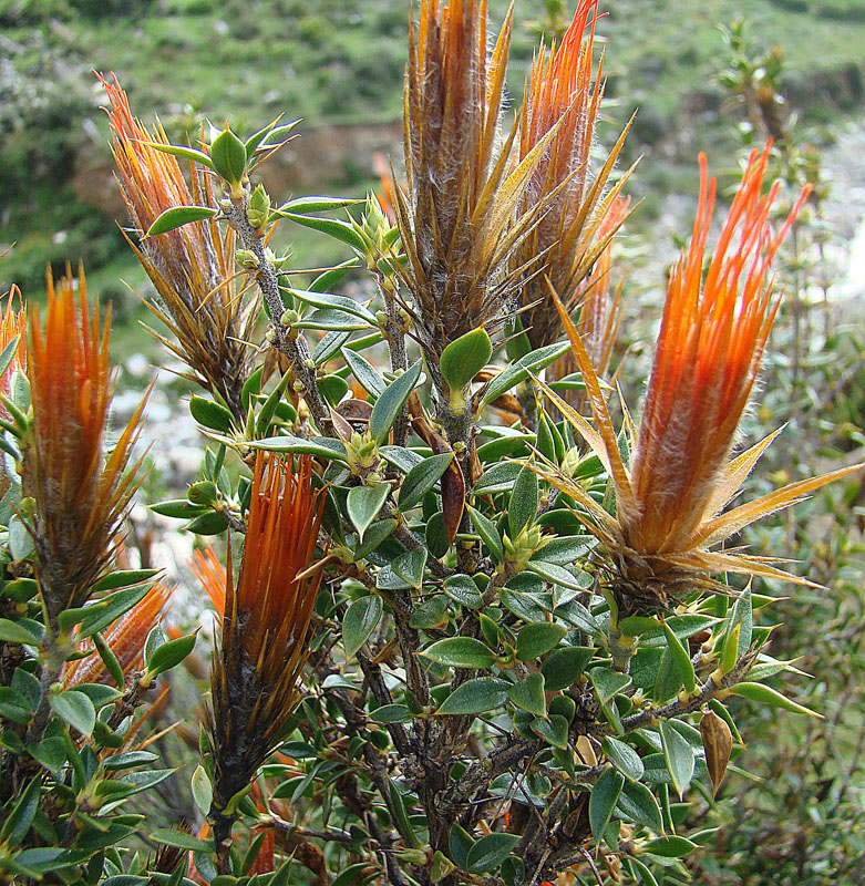 From 3000 meters elevation in the Cordillera Occidental of Peru, known as Huamanpinta. In context at